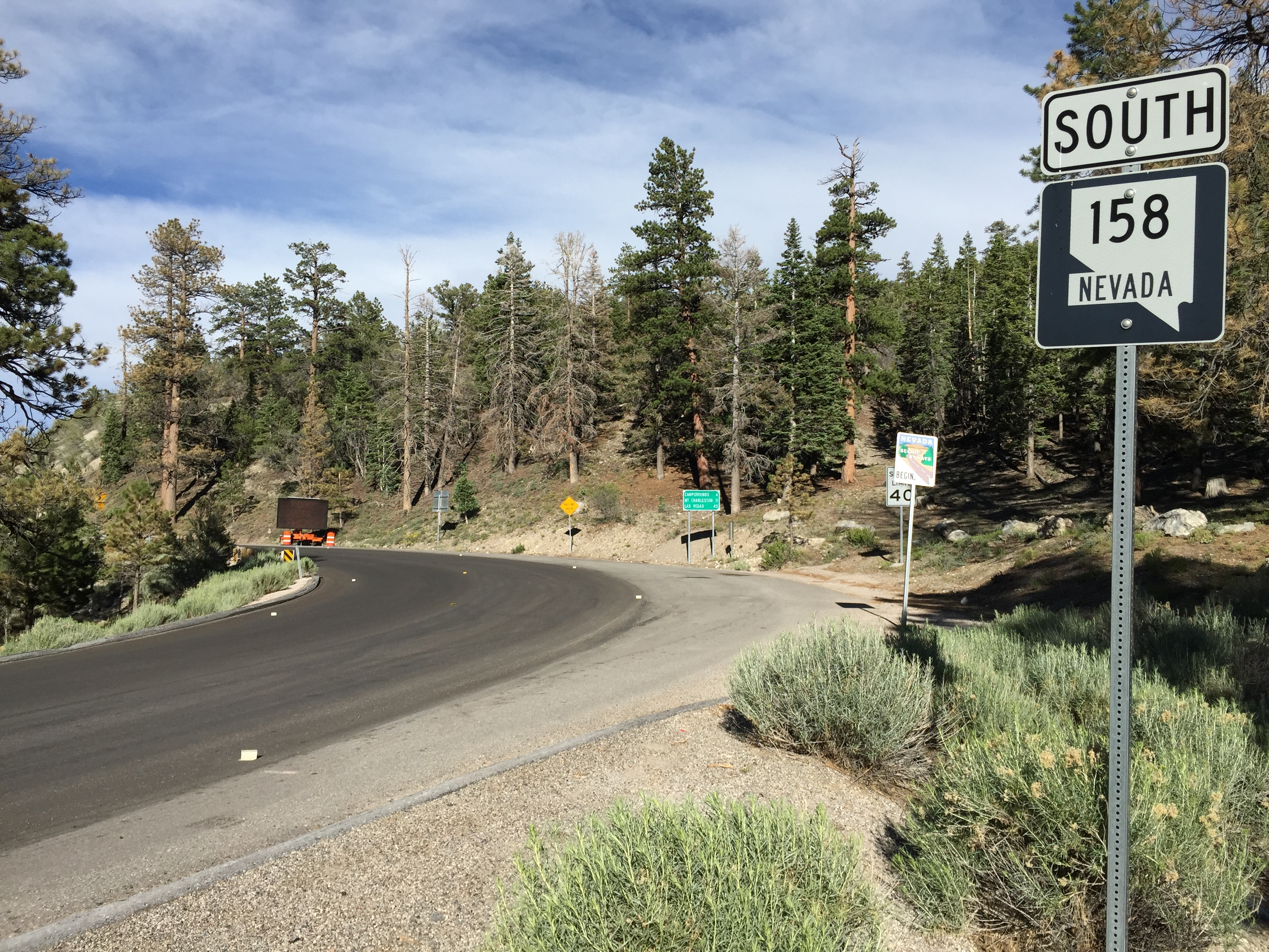 View south from the north end of Nevada State Route 158 (Deer Creek Road) near Las Vegas, Nevada